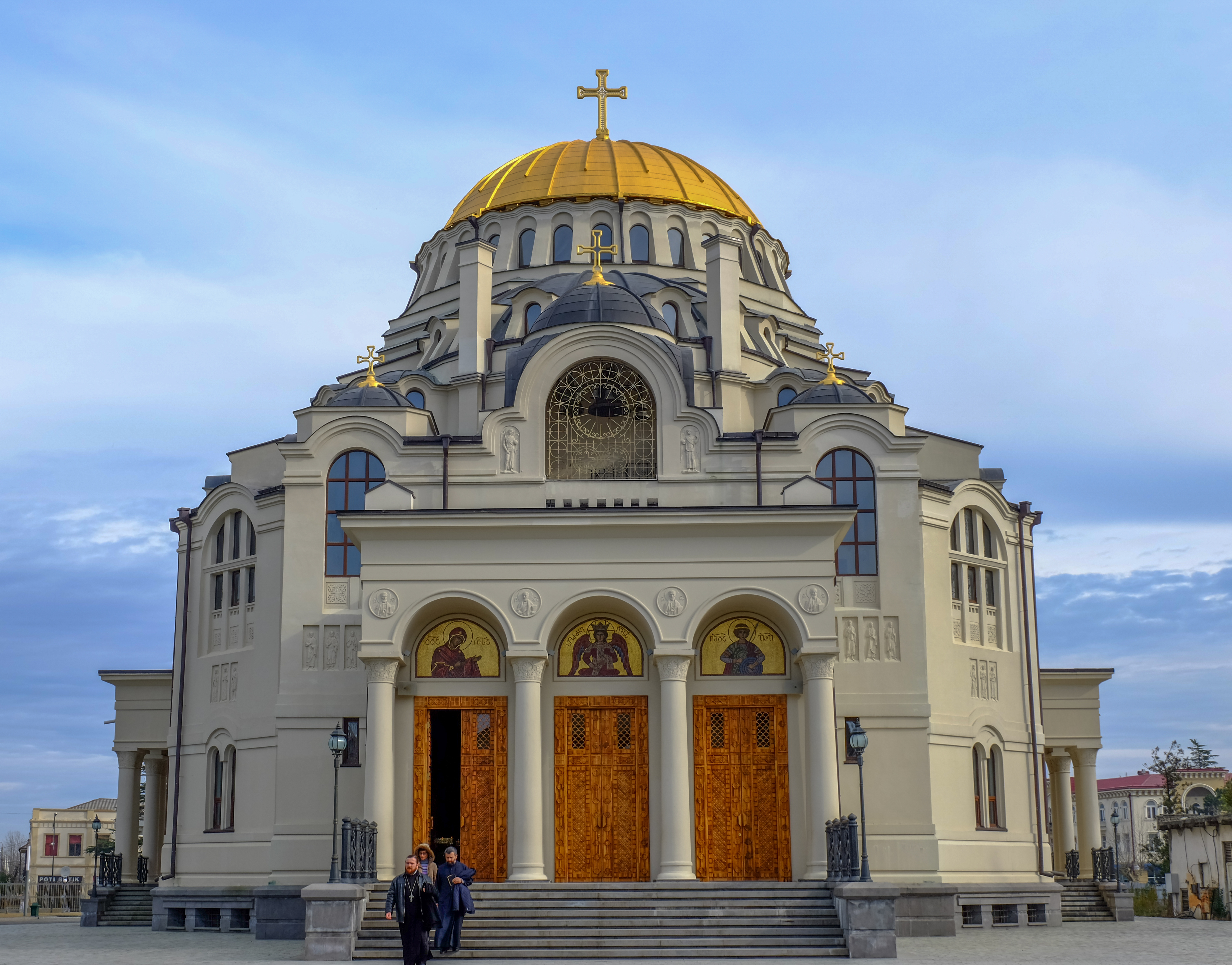 The cathedral is an imitation of Hagia Sofia in Istanbul, and it was built in 1906-07 with the great contribution of Niko Nikoladze, the mayor of Poti. Notably, Niko Nikoladze chose the location of the cathedral in the center of the town to make it viewable from every side of Poti. A. Zelenko and M. Marfeld were the architects of this Neo-Byzantine cathedral and the capacity of the church is 2,000 people. The ornaments and decorations are taken from the medieval Christian cathedrals in the Trabzon mountains. The Poti Cathedral has three iconostases and among the main decoration of the iconostasis are the icons of St. Nino, St. Andrew the First Called, and the St. David the Builder. In 1923, after the Red Army invasion of Georgia, the Communist government turned it into a theater and the bells were donated to the industrialization foundation. In 2005, the cathedral was restored to the Georgian Orthodox Church.